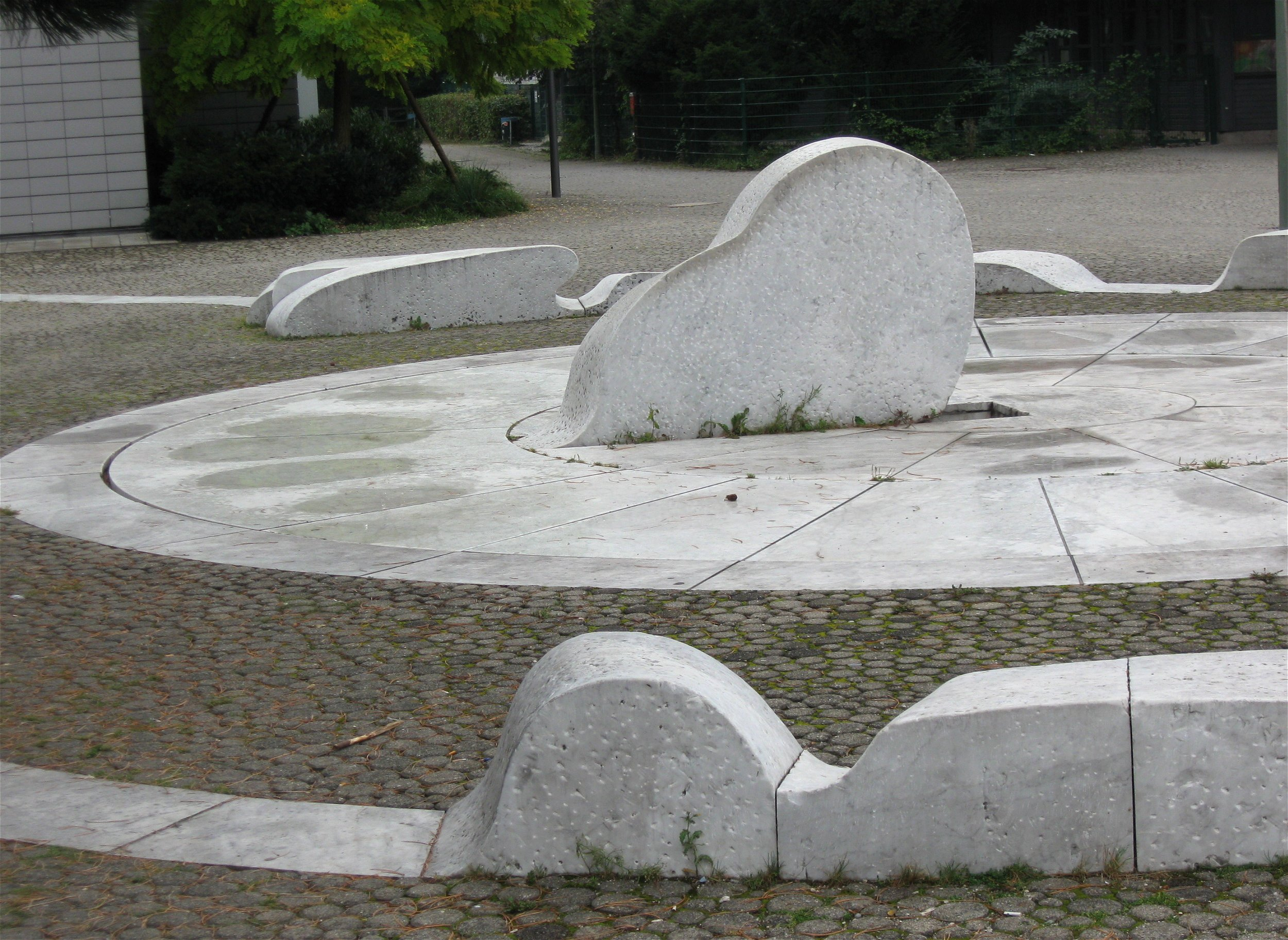 Sculpture by Hans Rucker on the grounds of the European School, Munich, in Neuperlach. Installed in 1981.